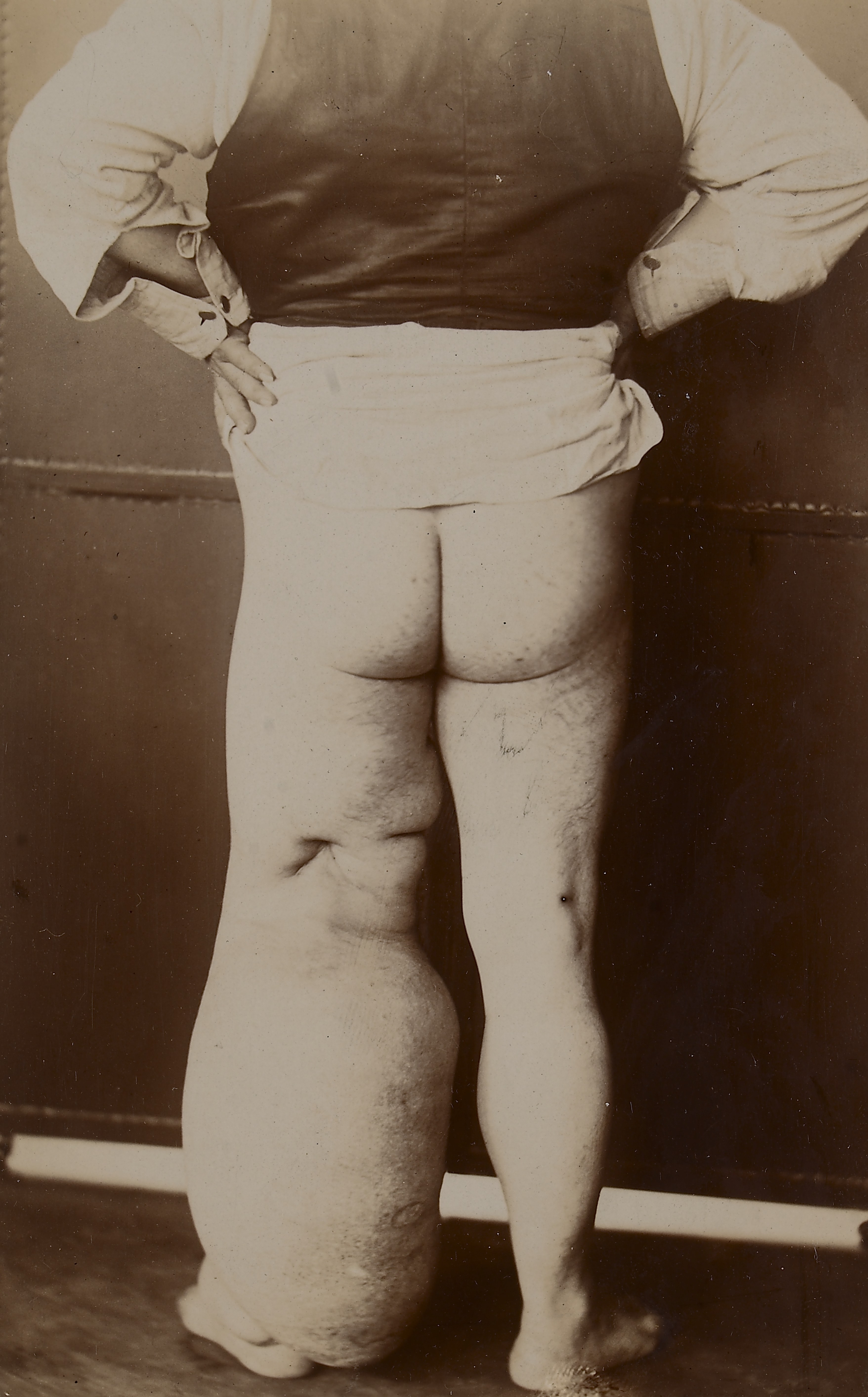 Black and white photograph showing 'elephantiasis' of the left leg of a male patient. Back view. Medical Photographic Library